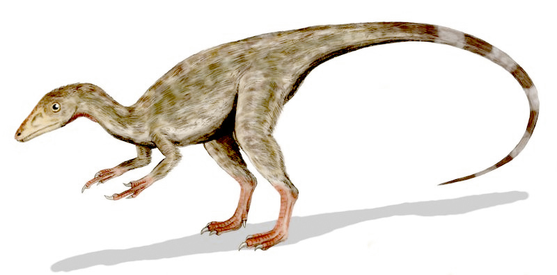 Compsognathus longipes, a coelurosaur from the Late Jurassic of Europe, pencil drawing